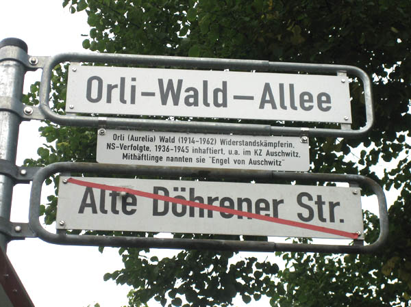 Photo taken at renaming ceremony for a road at Engesohder Cemetery in Hannover, Germany. The middle sign reads, "Orli (Aurelia) Wald (1914 - 1962) German Resistance fighter. Persecuted by the Nazis. Imprisoned 1936 - 1945 at Auschwitz and elsewhere. Named by fellow prisoners the "Angel of Auschwitz."